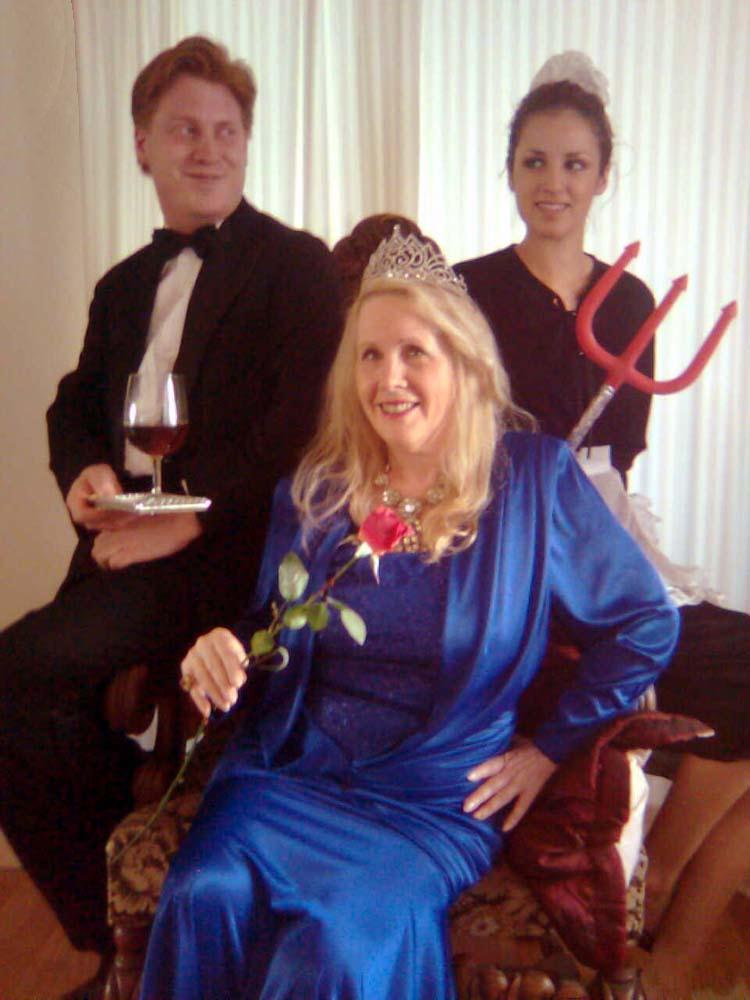 Emil Eikner, Sandy Mansson (Mrs. Michael Szeimowicz) & Oksana Maria Lorczak, initial Paro-Diva act, as released by image creator CabarEng (publicity shot approved for publication by all three persons in April of 2008 and first published on May 6 of that year)Place: CabarEng, Tätorpsvägen 5, Skarpnäck, Sweden